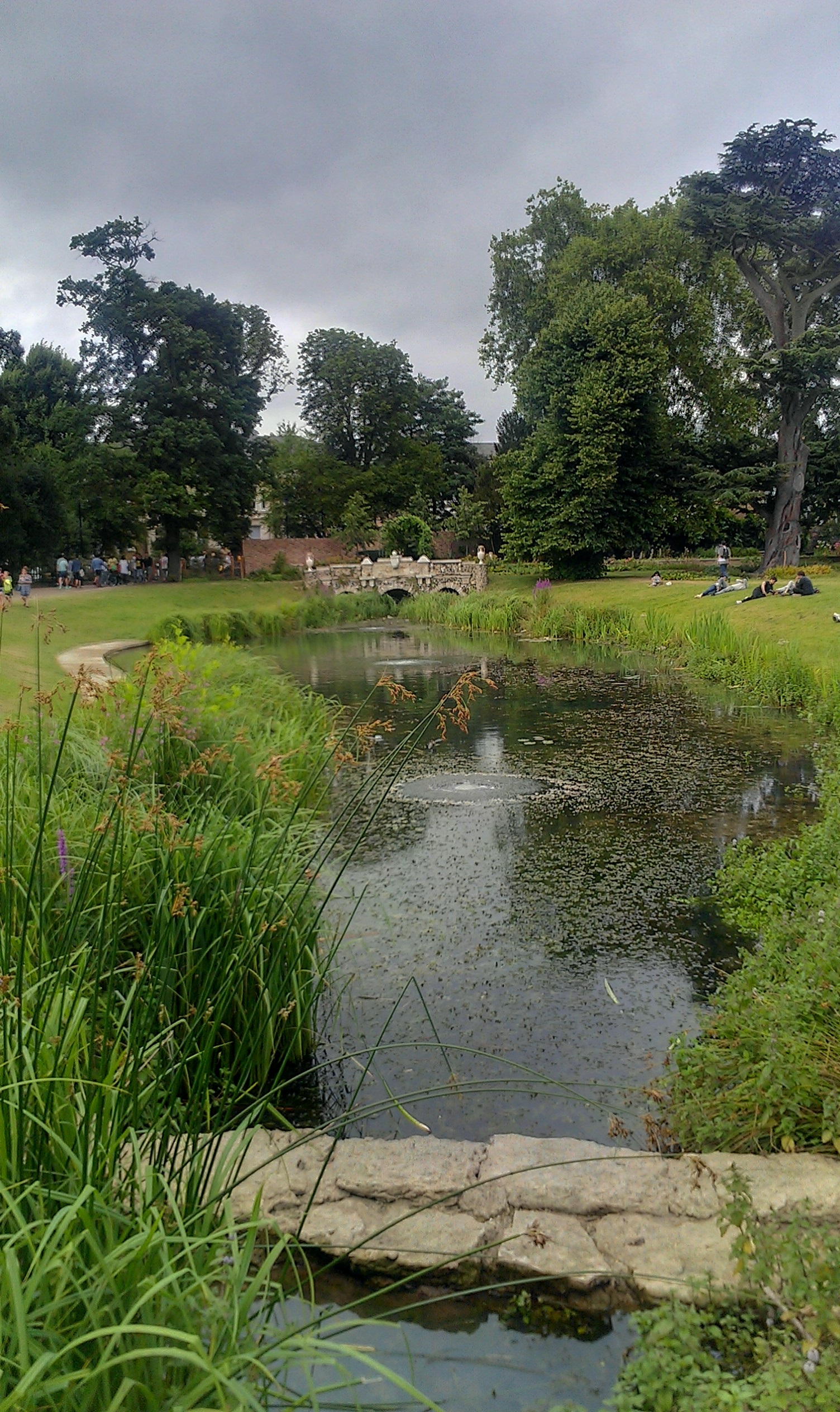 Lake with ornamental bridge at Walpole Park, London Borough of Ealing.